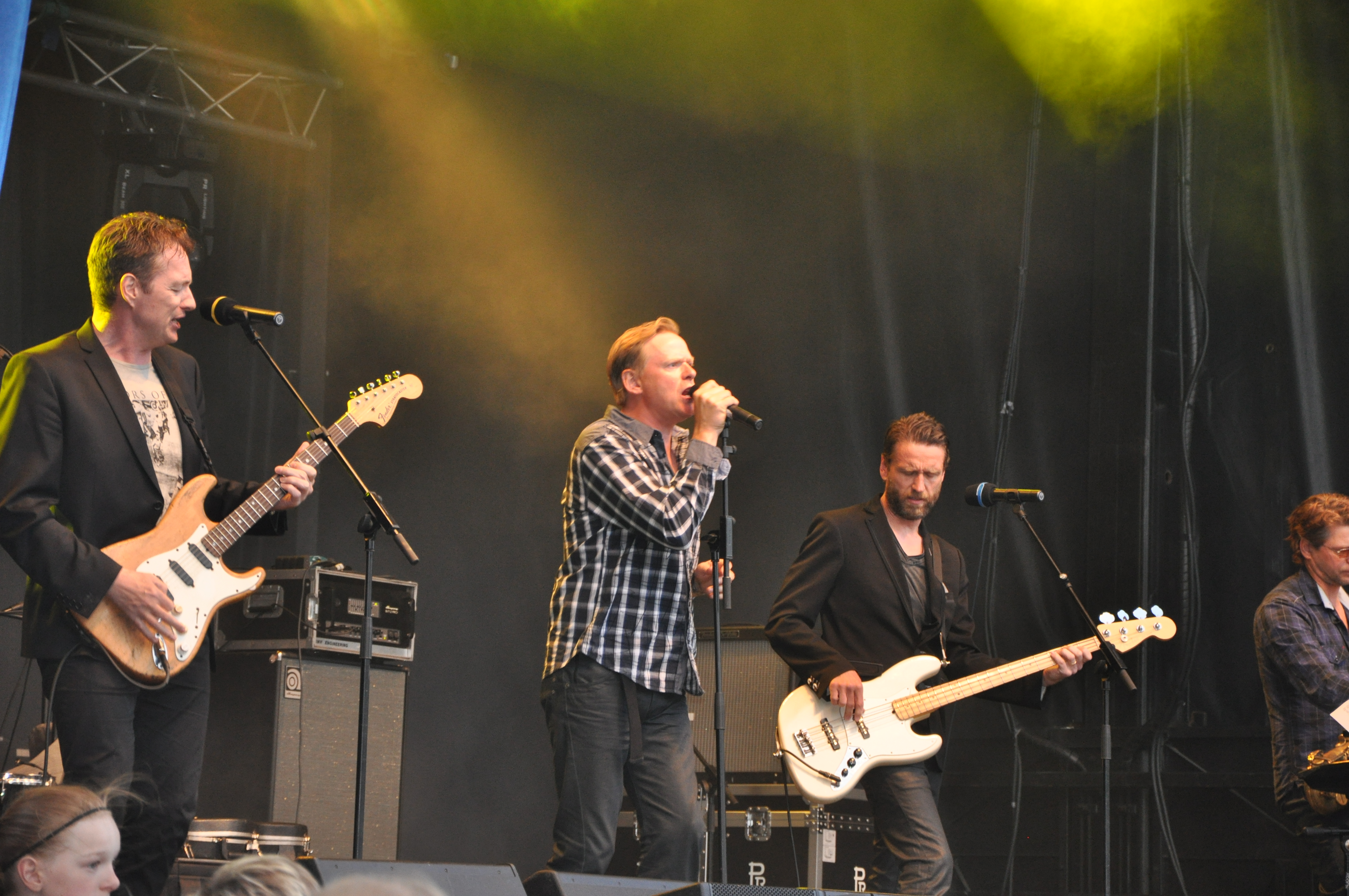 Stefán Hilmarsson á tónleikum á Menningarnótt 2012.